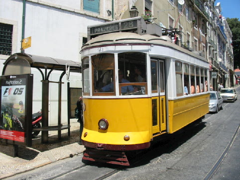 Tram (electrico). Lisbon, july 2005.